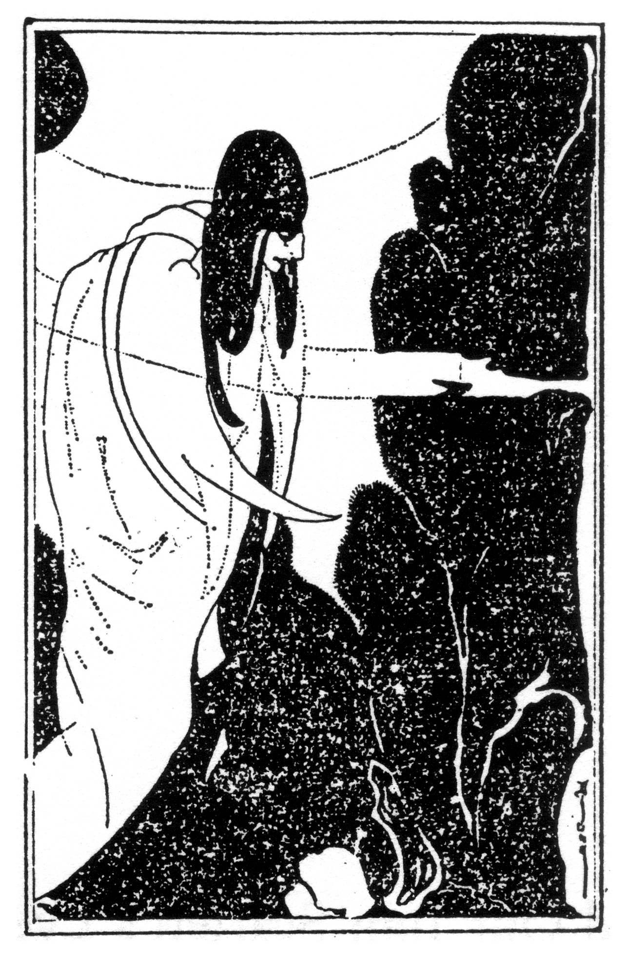 Illustration of a scene from J. M. Synge's Well of the Saints. "Could we hide in the bit of briar that is growing at the west of the church?"